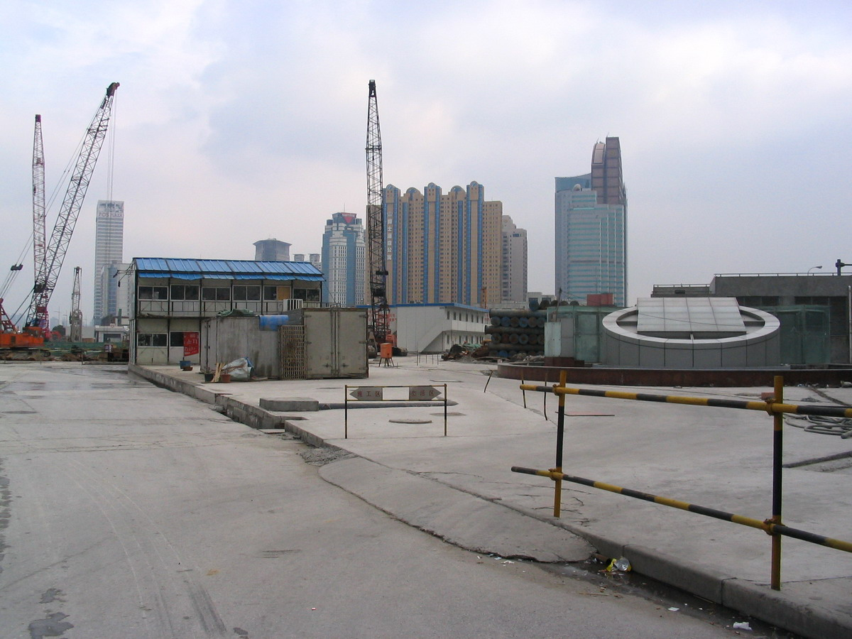 Century Avenue (Century Link), Dongfang Road Station